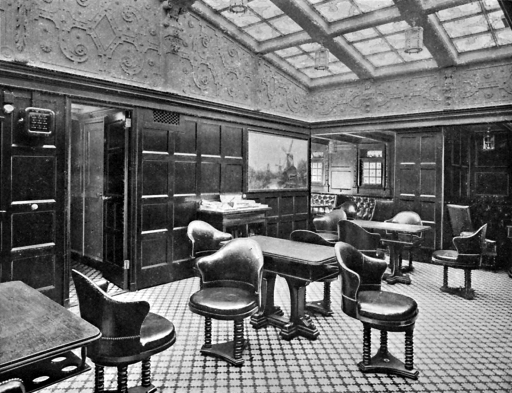 First-class smoking room on SS Kroonland. Caption cropped from image reads: "Smoke Room — First Class — S. S. Kroonland".